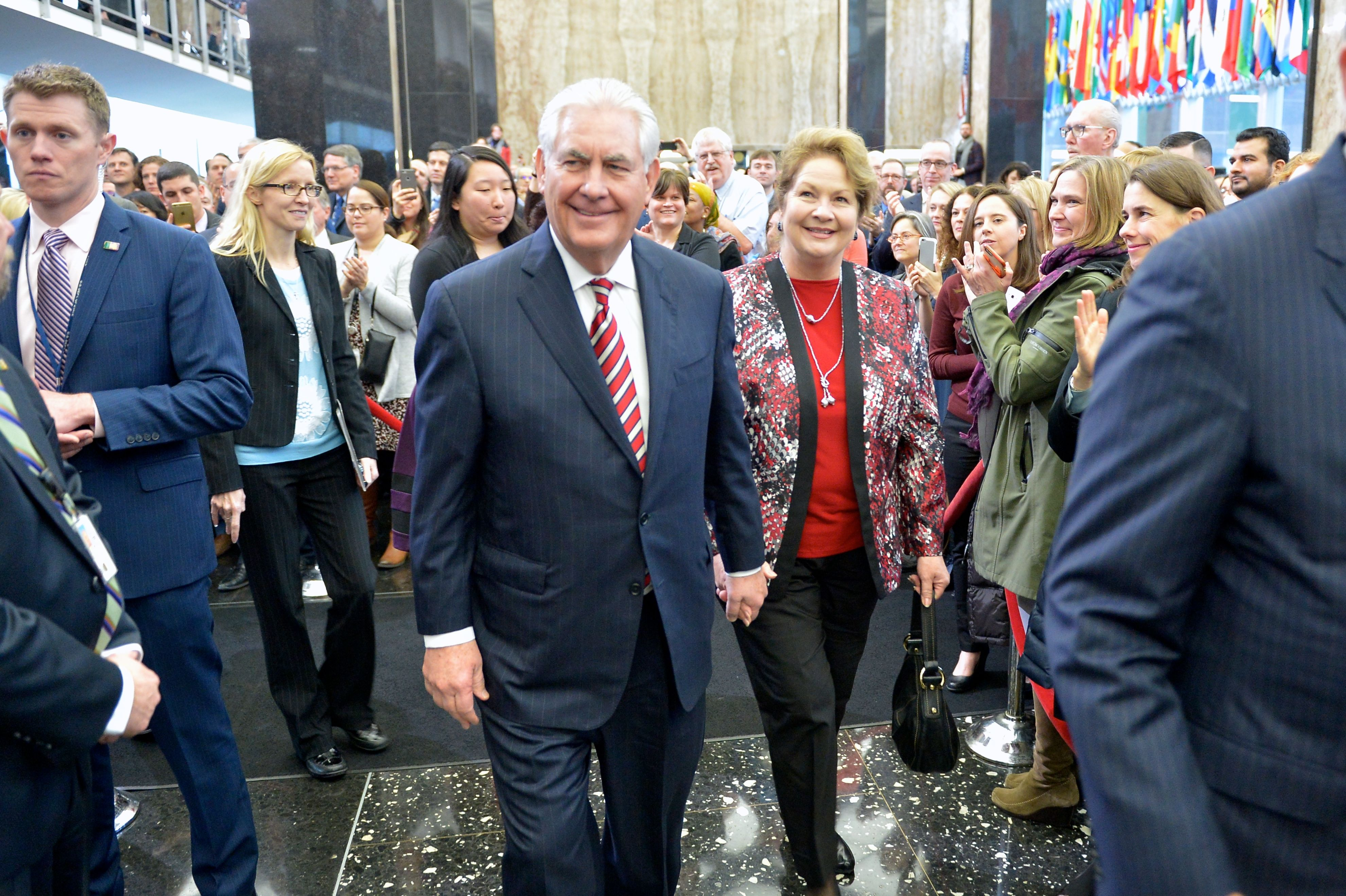 U.S. Secretary of State Rex Tillerson and his wife, Renda St. Clair, walk through the main lobby of the Department's Harry S. Truman building on his first day as Secretary of State in Washington, D.C., on February 2, 2017. [State Department photo/ Public Domain]